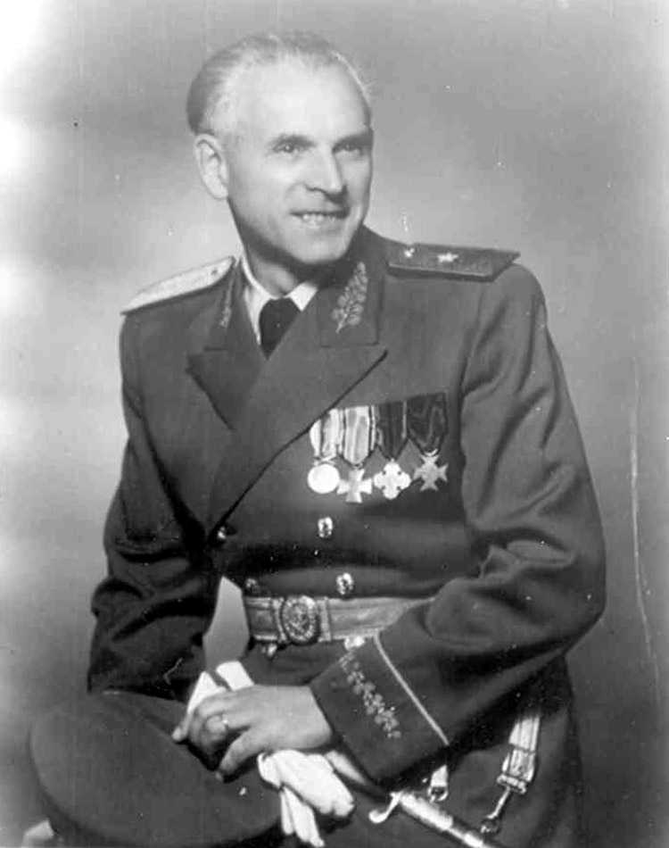 Major general Eduard Ureš